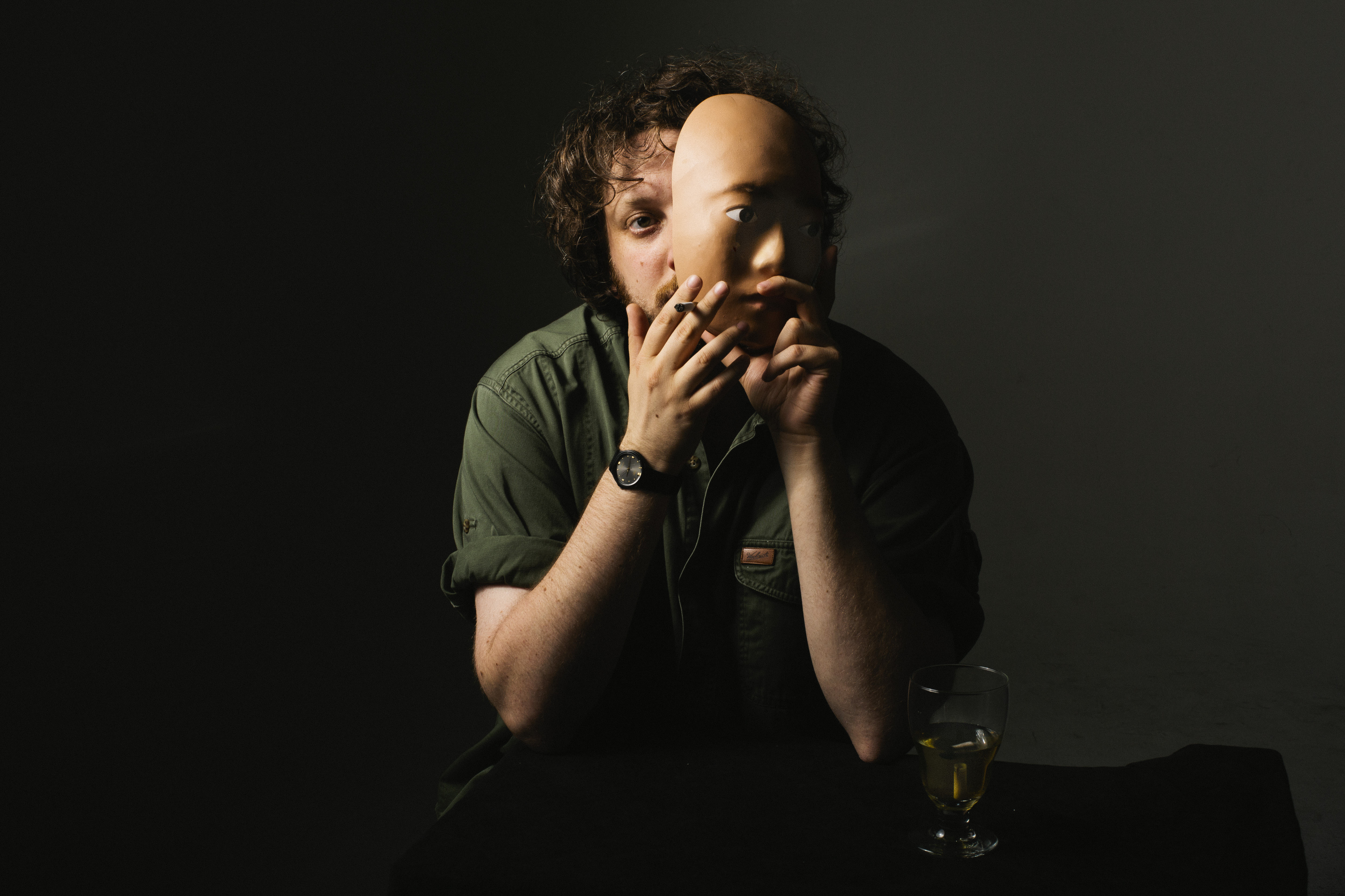 Oneohtrix Point Never // CREDIT - TIMOTHY SACCENTI